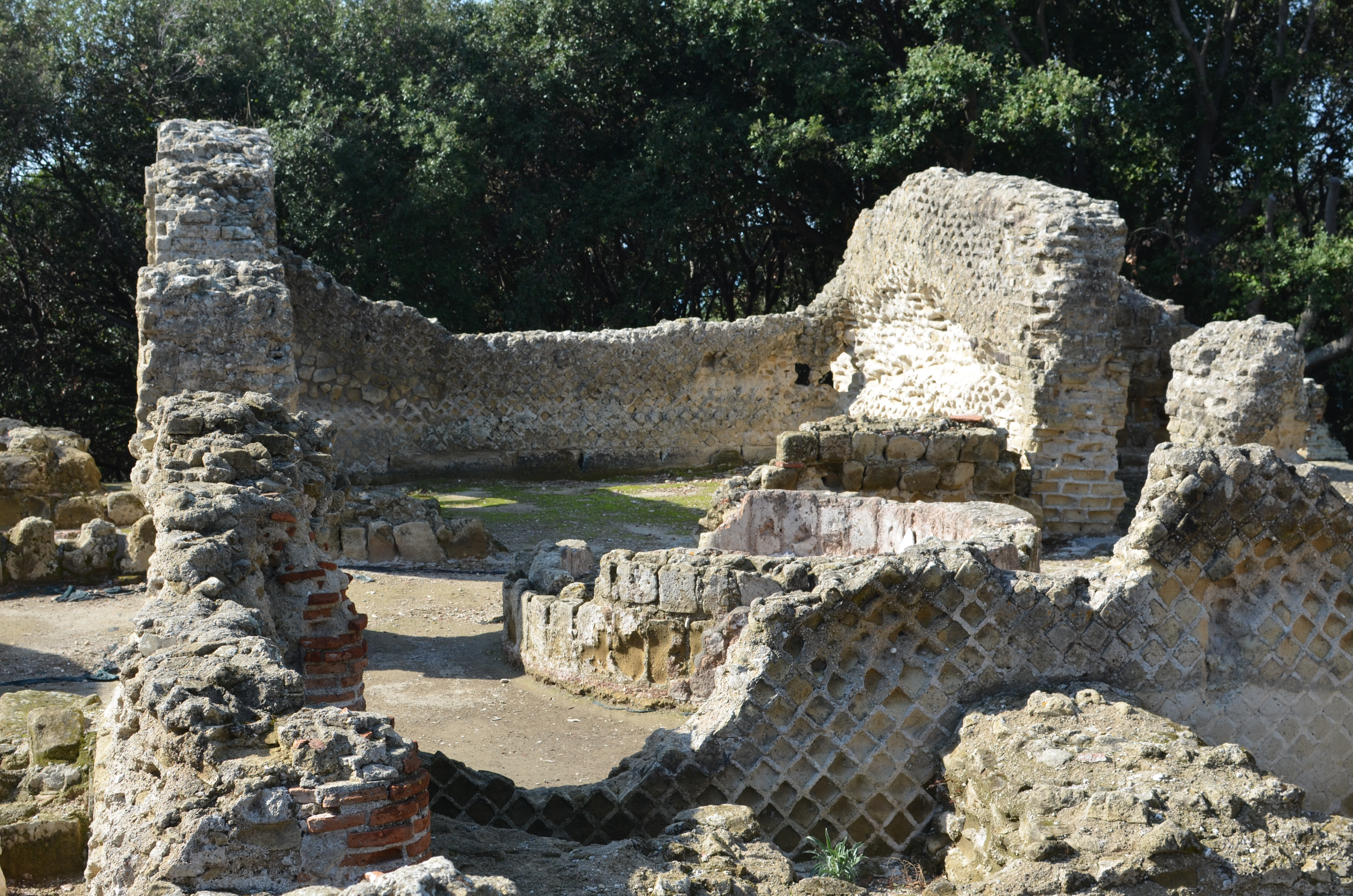 The remains of the Temple of Jupiter located on the top of the acropolis of Cumae. The temple was later used as a church, the baptismal font can still be seen in the back of the building.